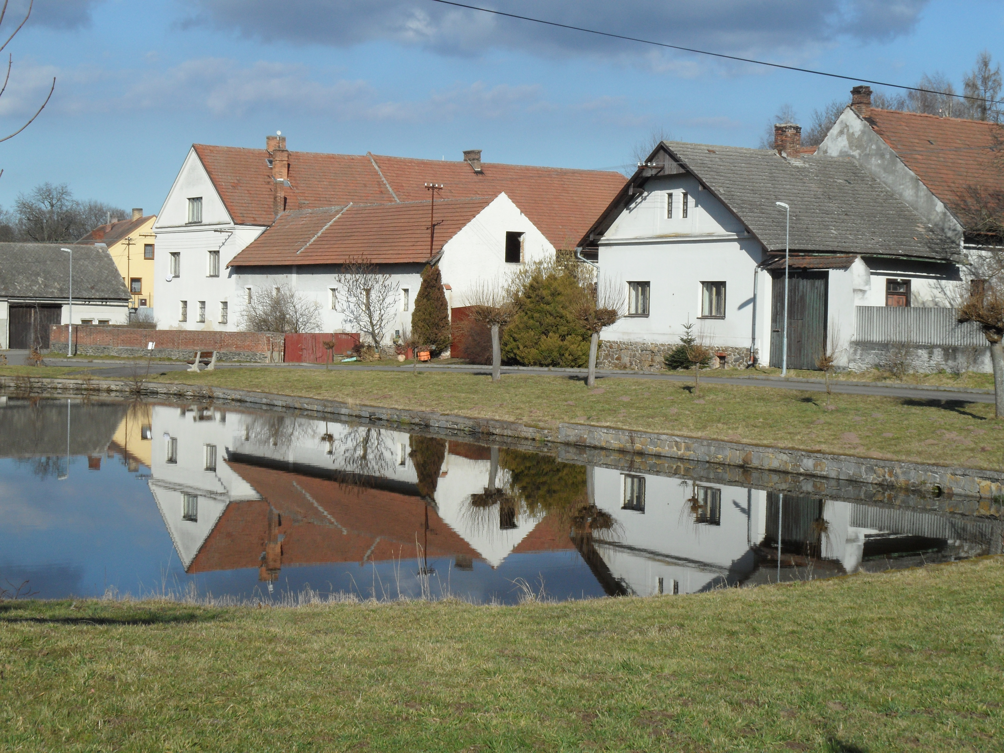 Skryje F. Village Square: Houses at Eastern Side, Havlíčkův Brod District, the Czech Republic.